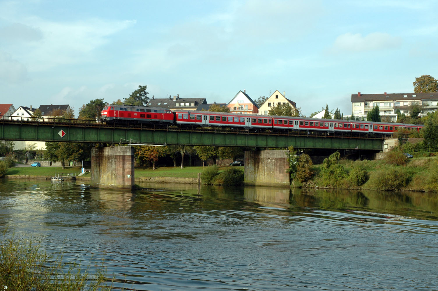 RegionalExpress train on the Neckar bridge between Bad Friedrichshall-Jagstfald and Bad Wimpfen.